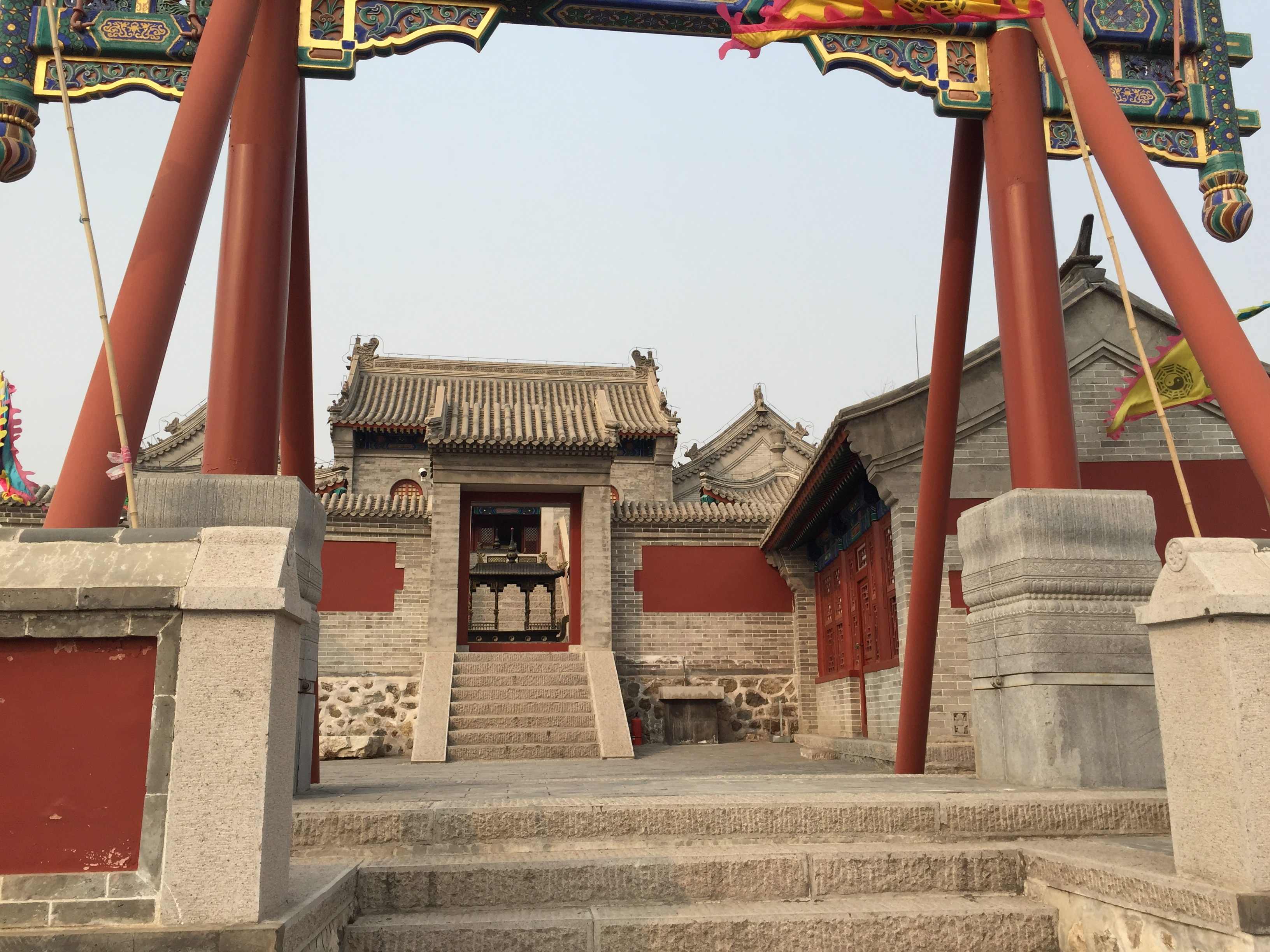 Although smaller than Baiyunguan...